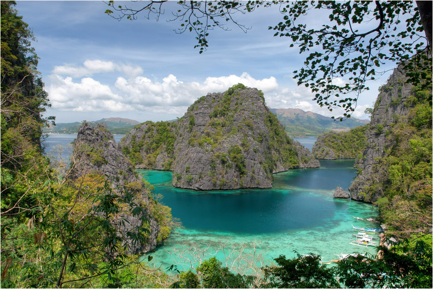 View on the half way to Kayangan Lake